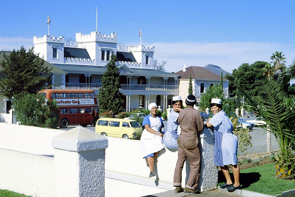 The Lord Milner Hotel at Matjiesfontein, South Africa. At the foreground some staff members of the hotel.